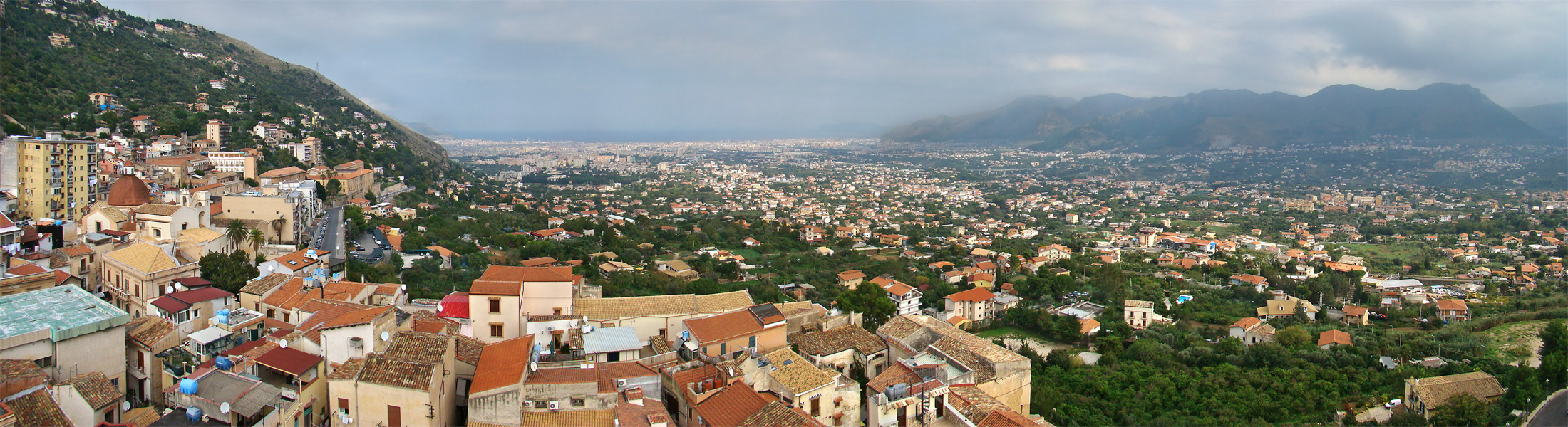 Plain of the Conca d'Oro, Sicily, Italy. View from the top of the Cathedral of Monreale, looking northeast. At the horizon, Palermo and the Tyrrhenian Sea.